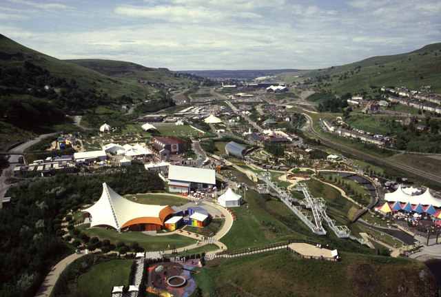 National Garden Festival, Ebbw Vale There was a string of these in the 1980s and early 1990s. I think Ebbw Vale was the last. Liverpool was the first (I think). I went to Stoke-on-Trent and Gateshead but think I missed one somewhere. This photo was taken from an elevated viewing platform that was something like 200' up. This end of the site has fared less well although the big circle in the foreground survives. The steelworks in the distance has gone and there is a lot of new development in the middle distance.